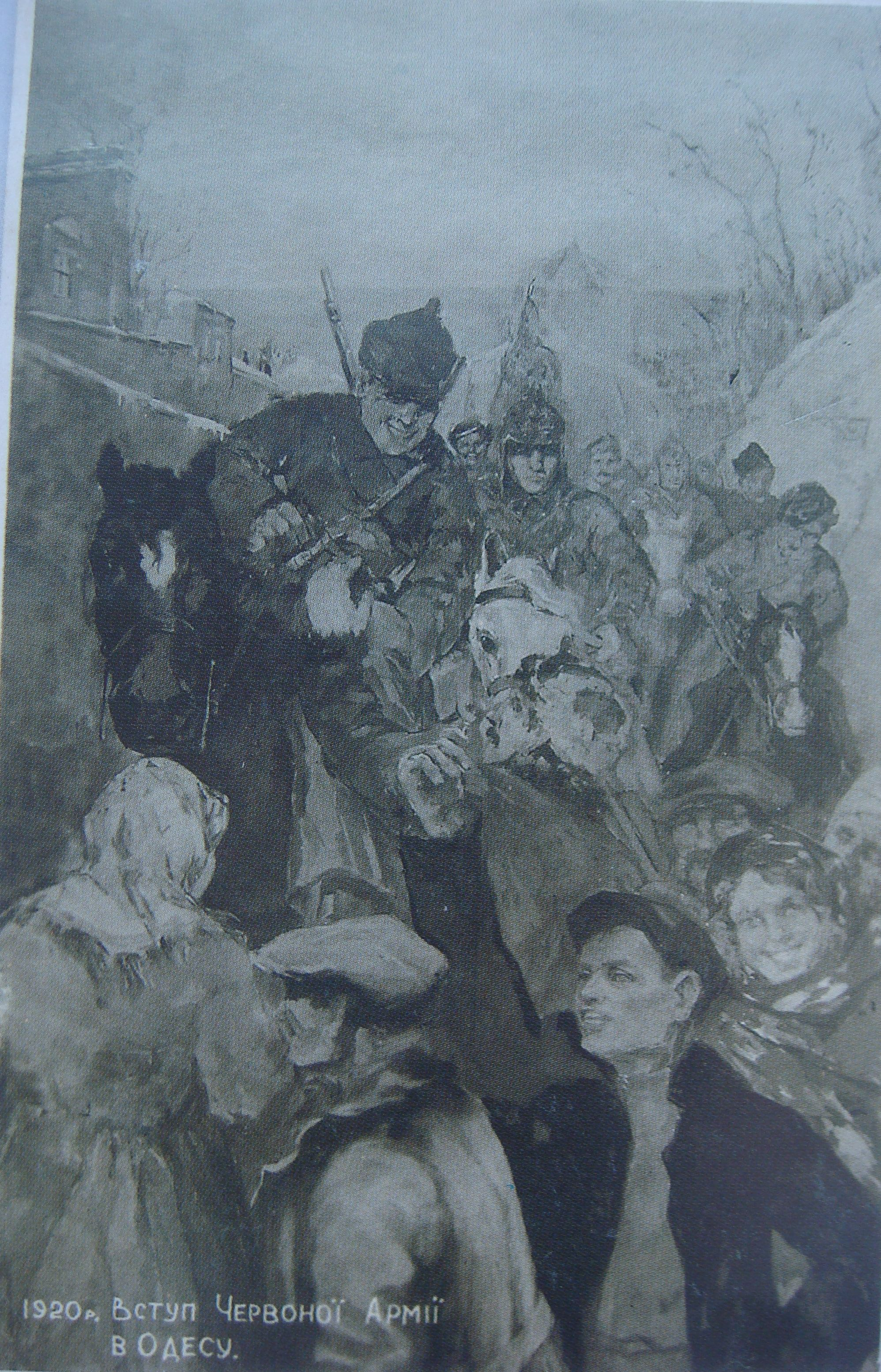 Soviet Open Letter (Carte Postale) showed moments of "Red Army liberated Odessa" in February 1920